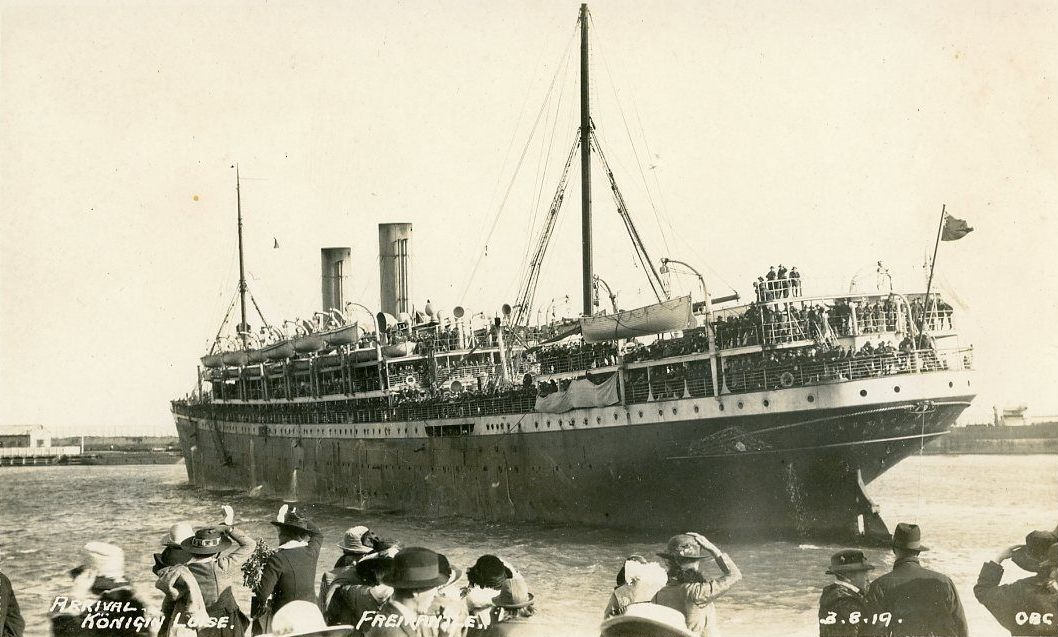 Troopship SS Königin Luise arriving at Fremantle Harbour, Western Australia.